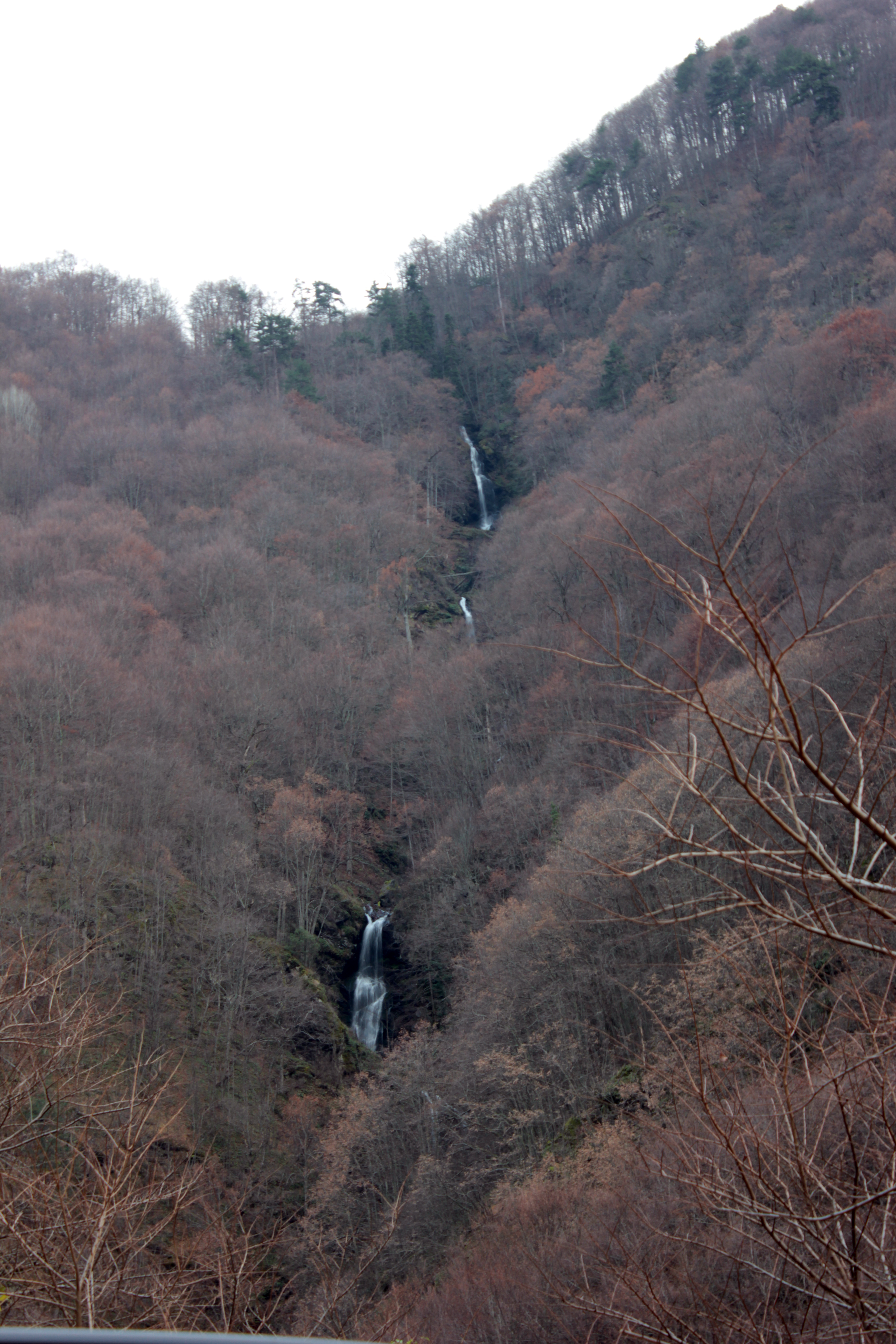 The Devil's waters waterfalls in Pastra, Bulgaria